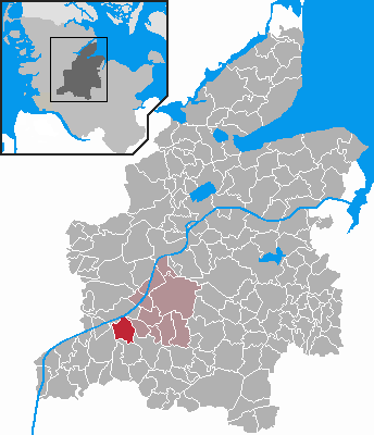 Locator maps of municipalities in Schleswig-Holstein - District Rendsburg-Eckernförde